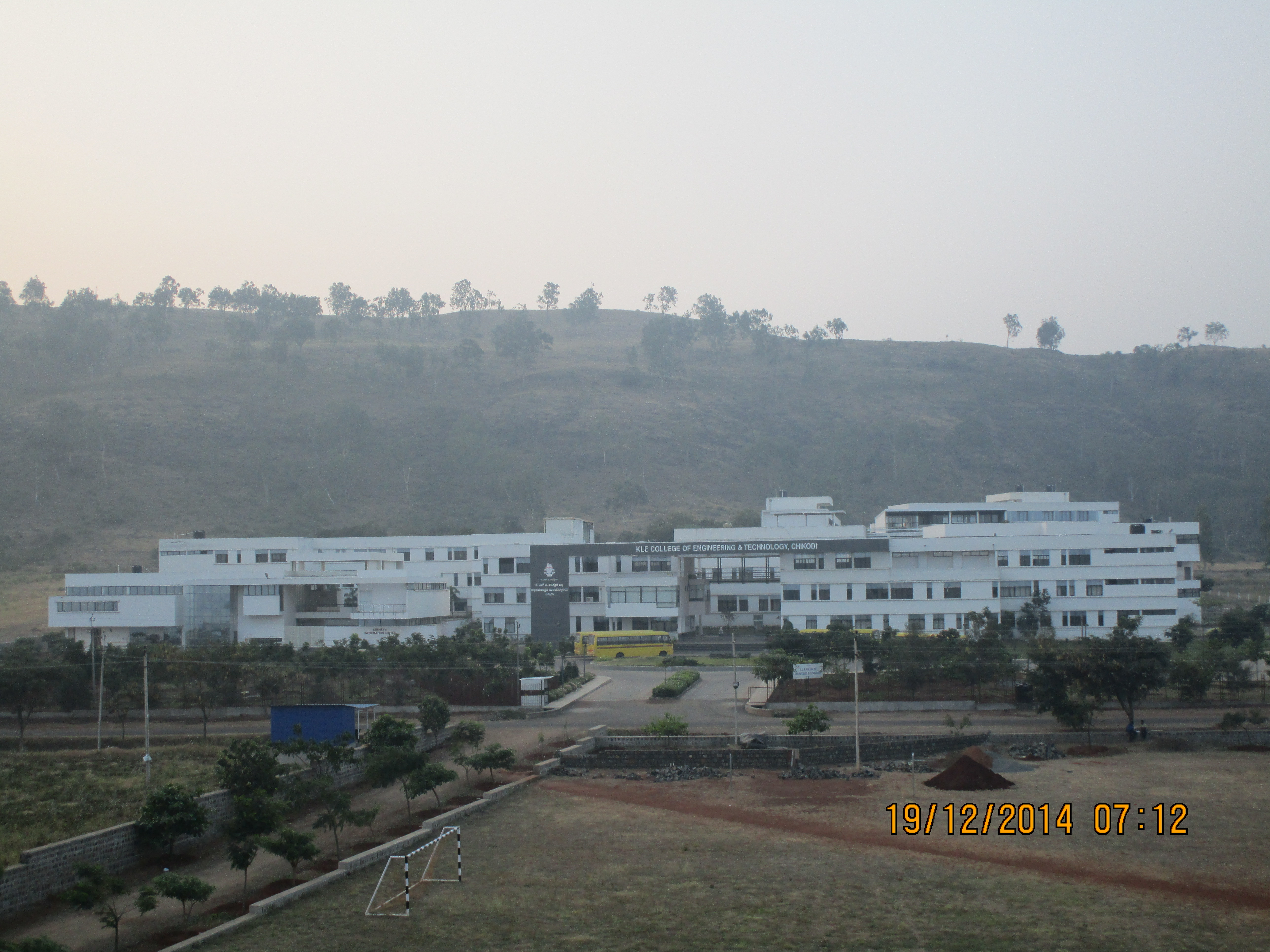 College View